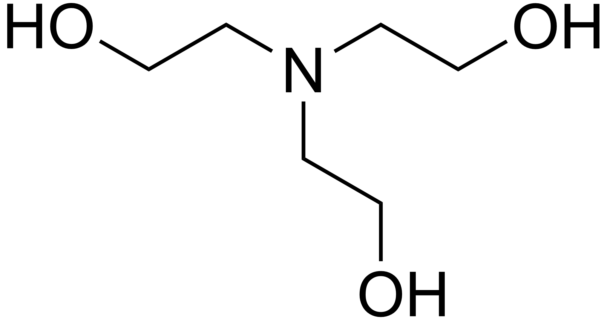 Chemical structure of triethanolamine